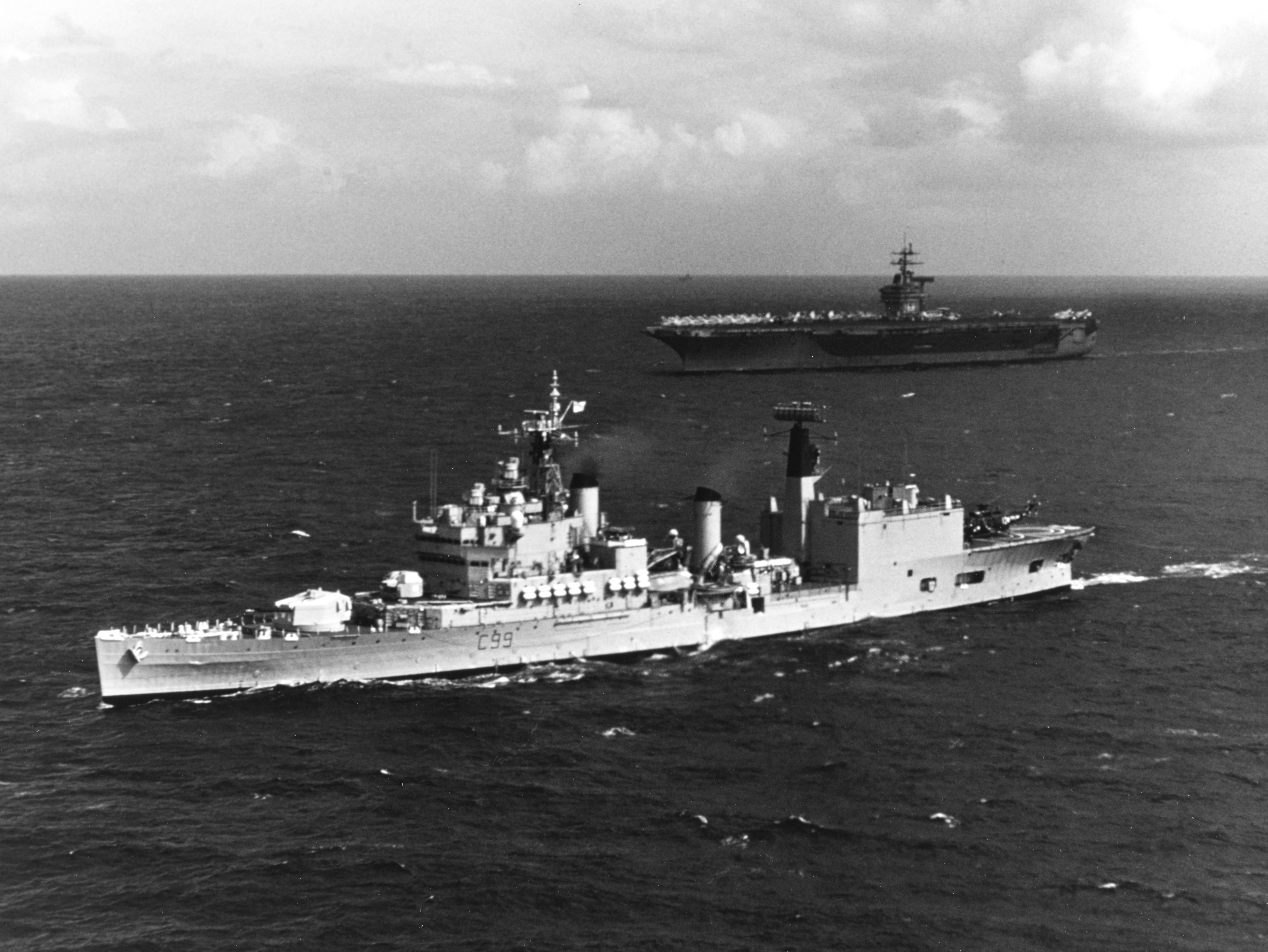 The Royal Navy cruiser HMS Blake (C99) and the U.S. Navy aircraft carrier USS Nimitz (CVN-68) operate in the English Channel during Operation "NIMEX" on 4 October 1975.